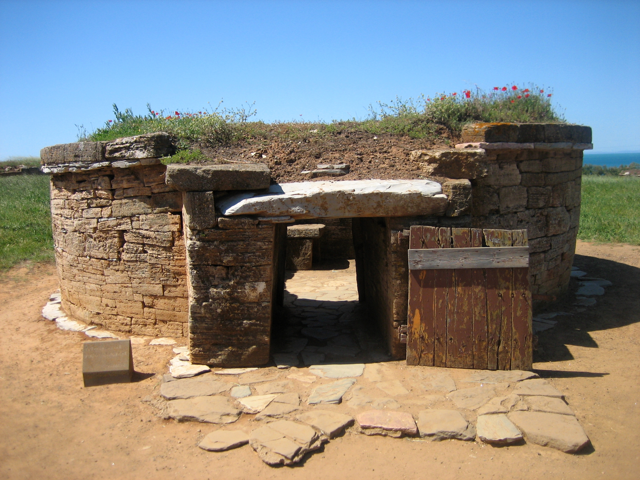 Tumulus at the necropolis of "San Cerbone" at Populonia in tuscany in Italy.